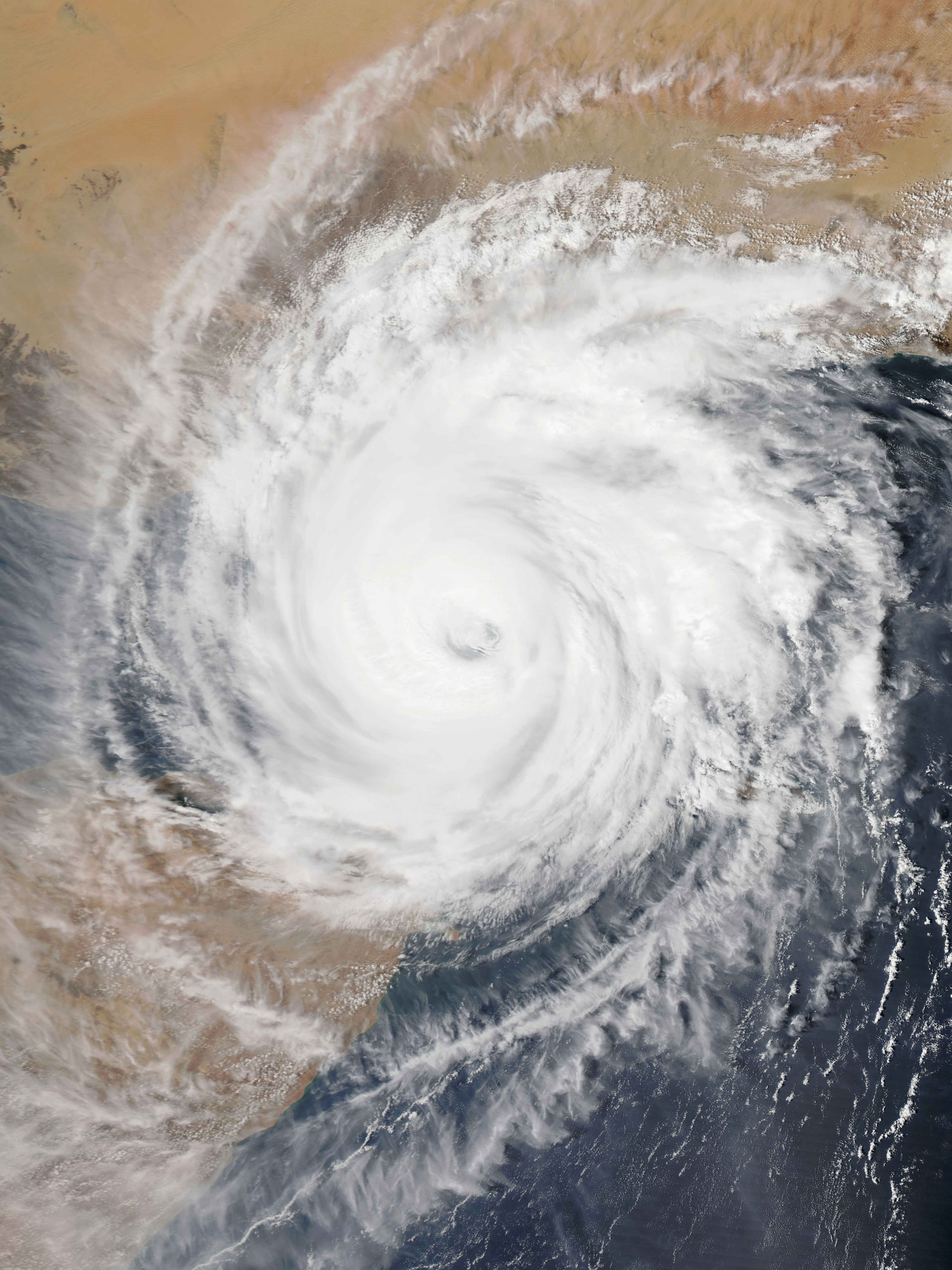 Extremely Severe Cyclonic Storm Chapala over the Gulf of Aden and approaching Yemen on 2 November 2015.